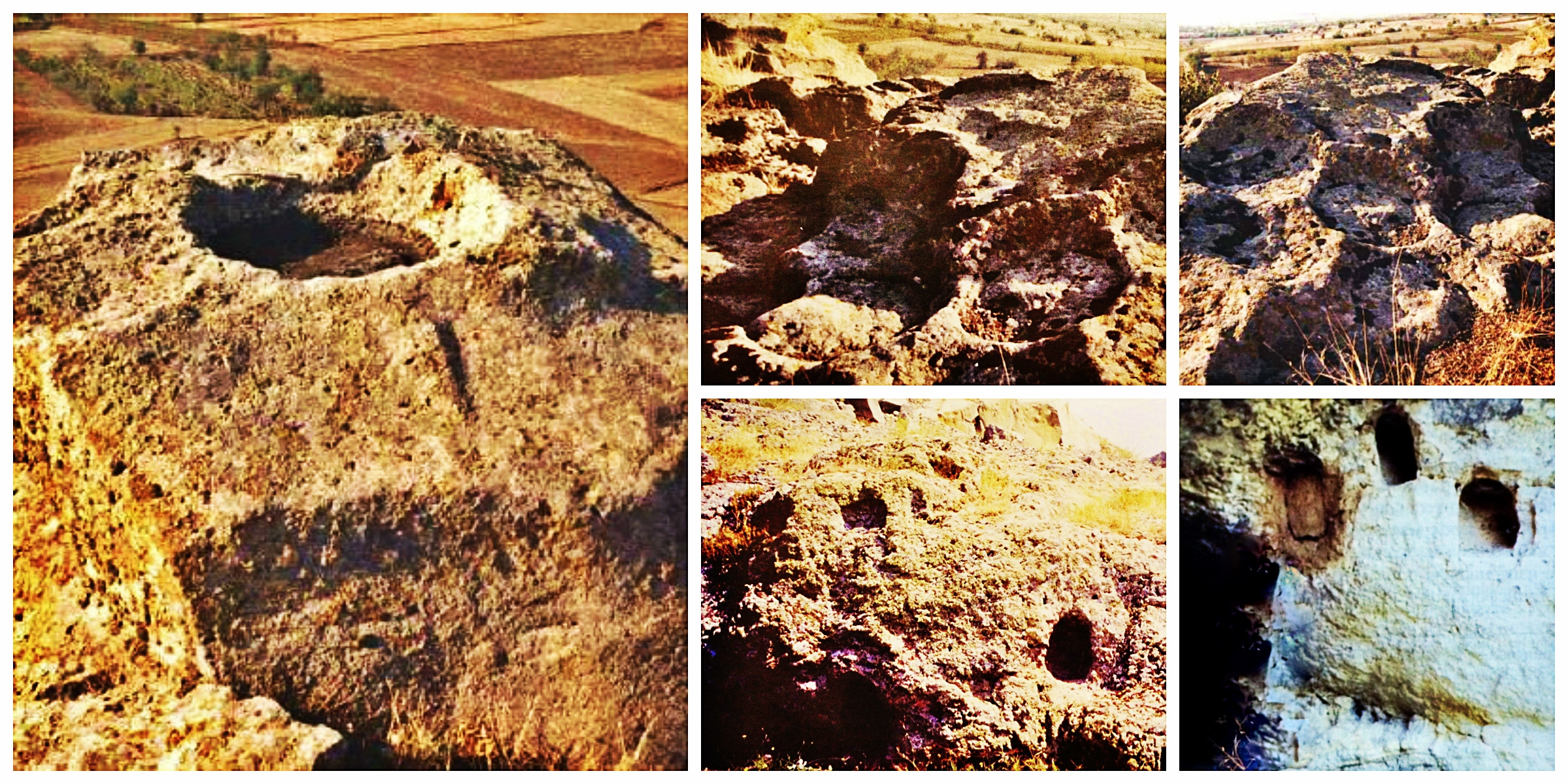 Vujevska karpa Mlado Nagorichane MKD FYROM